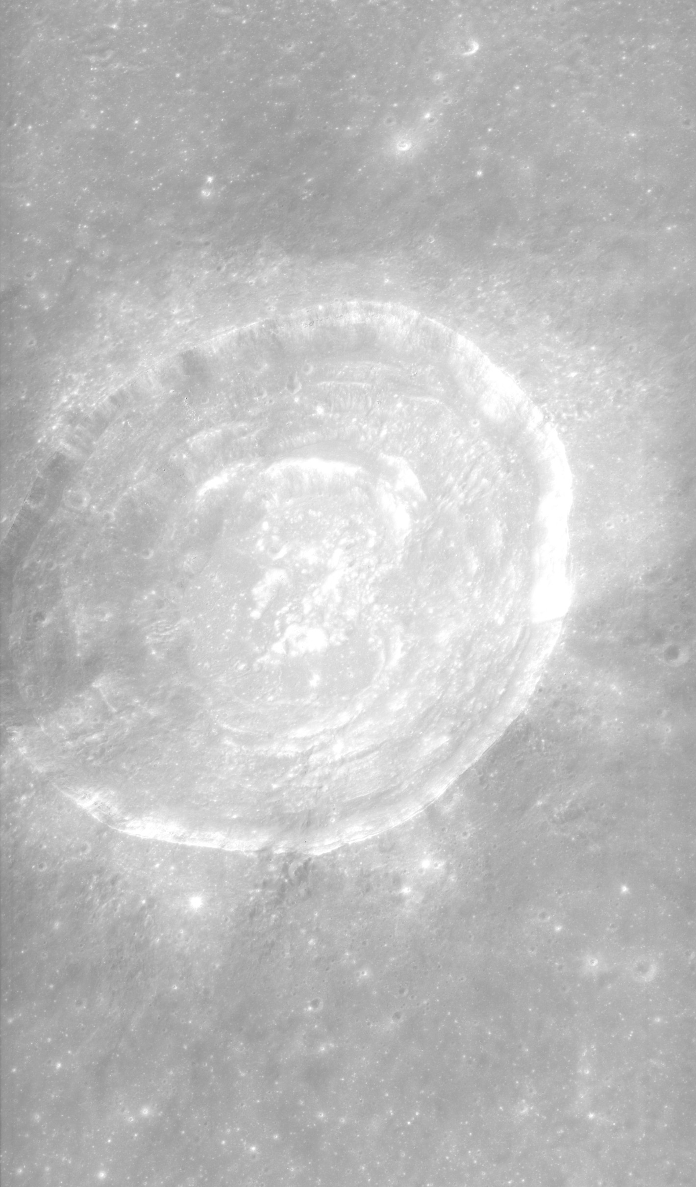 Oblique view of Picard, Mare Crisium, facing approximately south, on the moon.